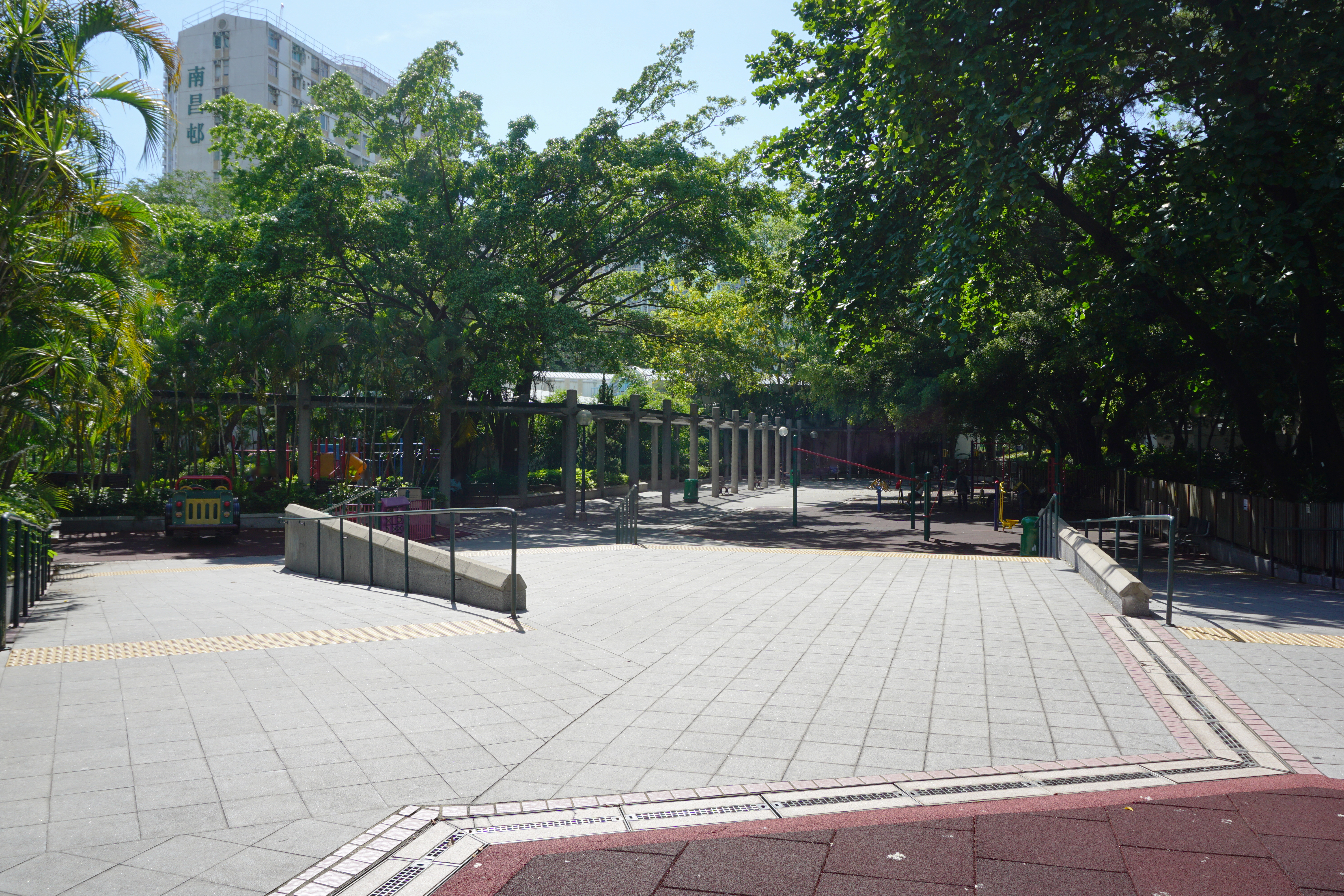 Tung Chau Street Park in Sham Shui Po, Hong Kong.